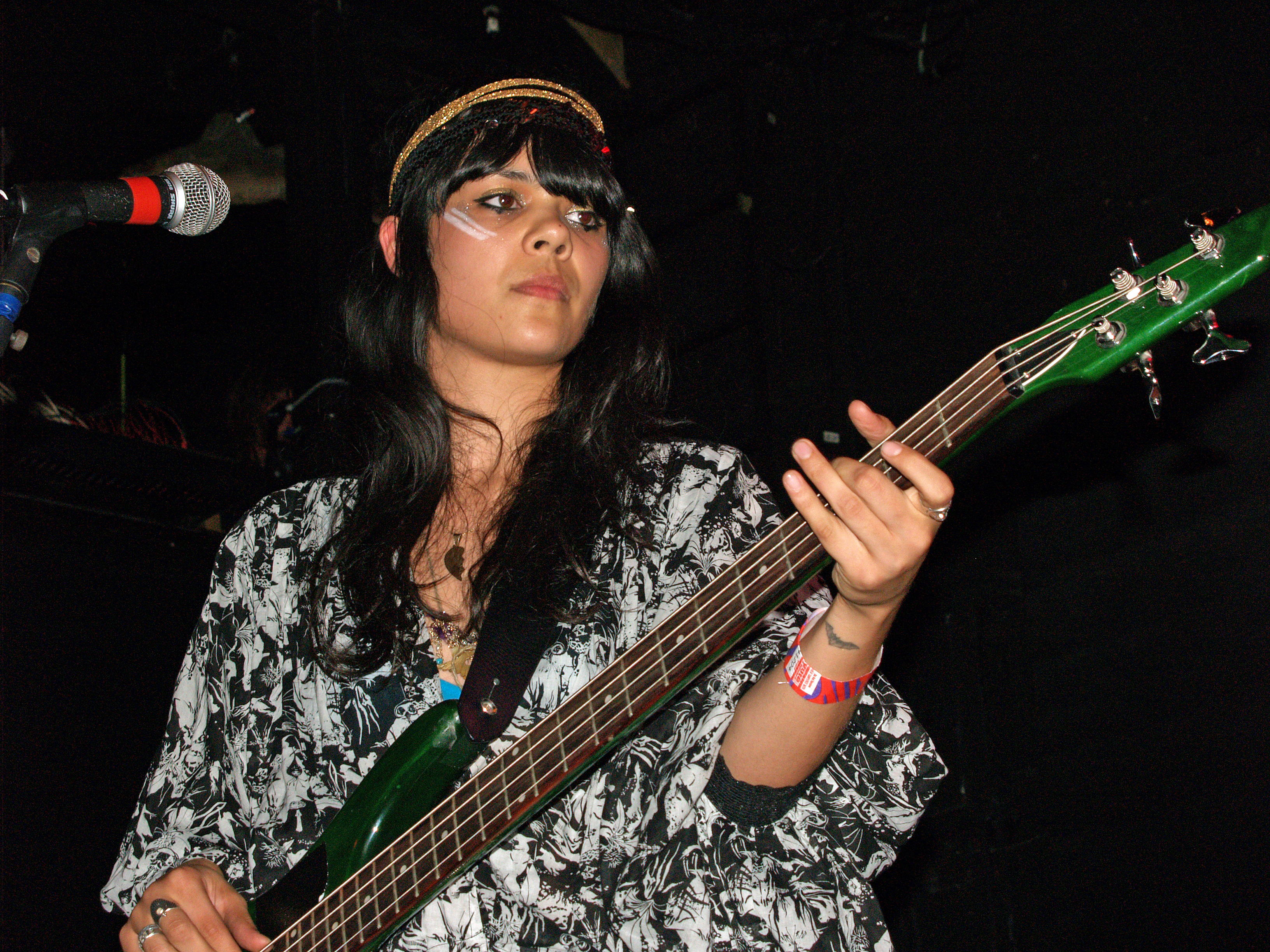 Natasha Khan playing the Bowery Ballroom